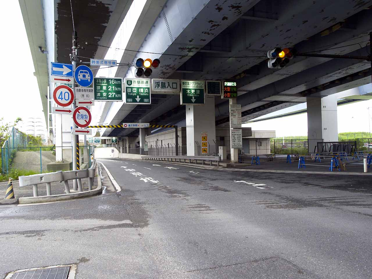 Ukishima entrance for Shutoko Bayshore route (aka Wangan line) and Tokyo-Wan Aqua Line.